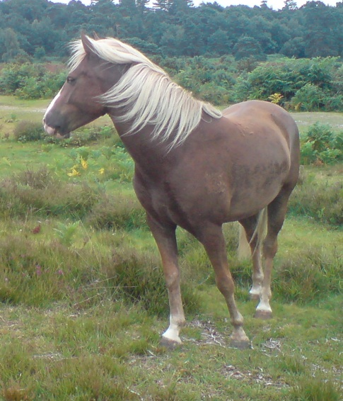 Flaxen chestnut New Forest pony